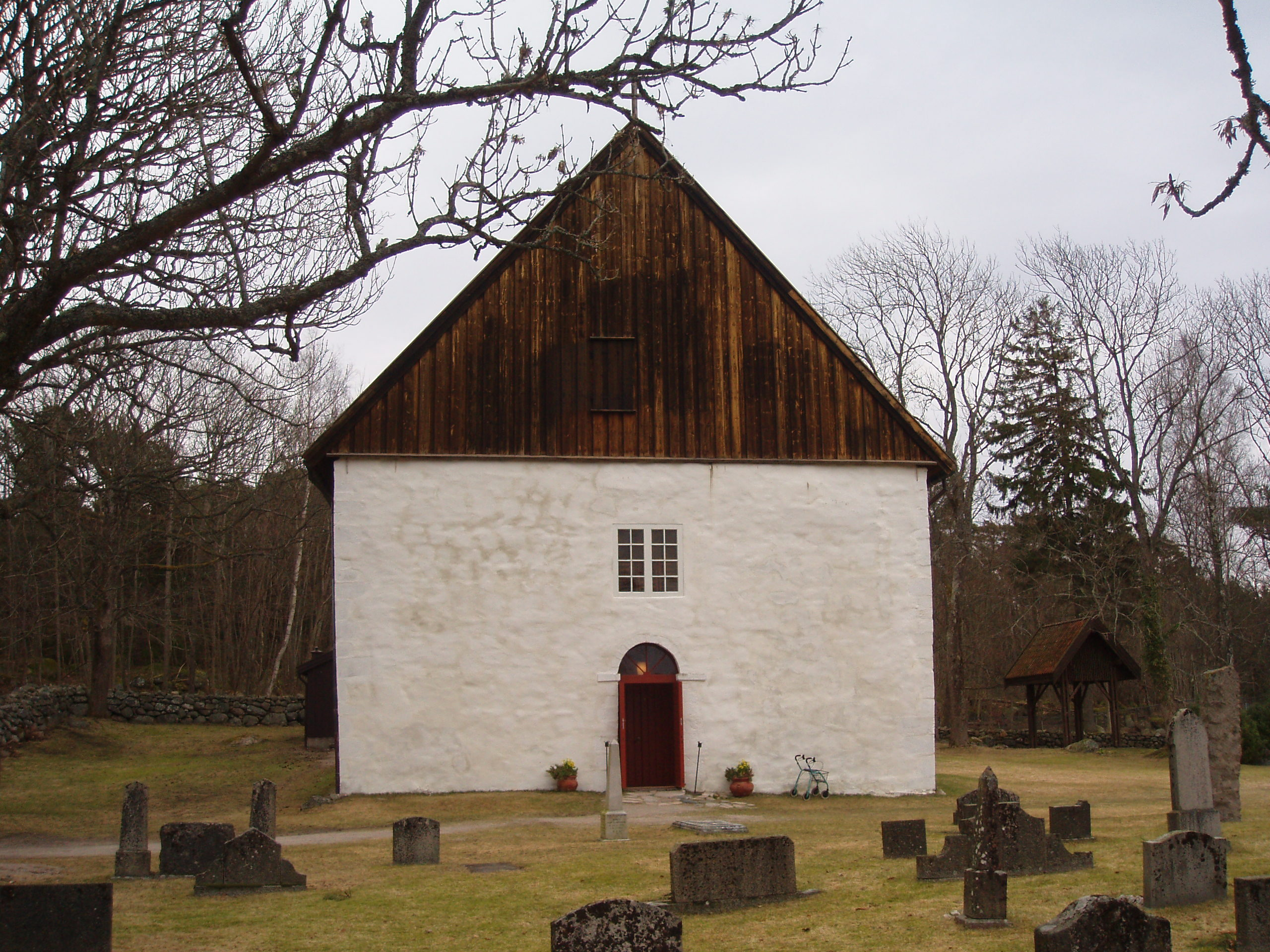 Hvaler municipality church, possibly Norway's oldest church, seen from front.